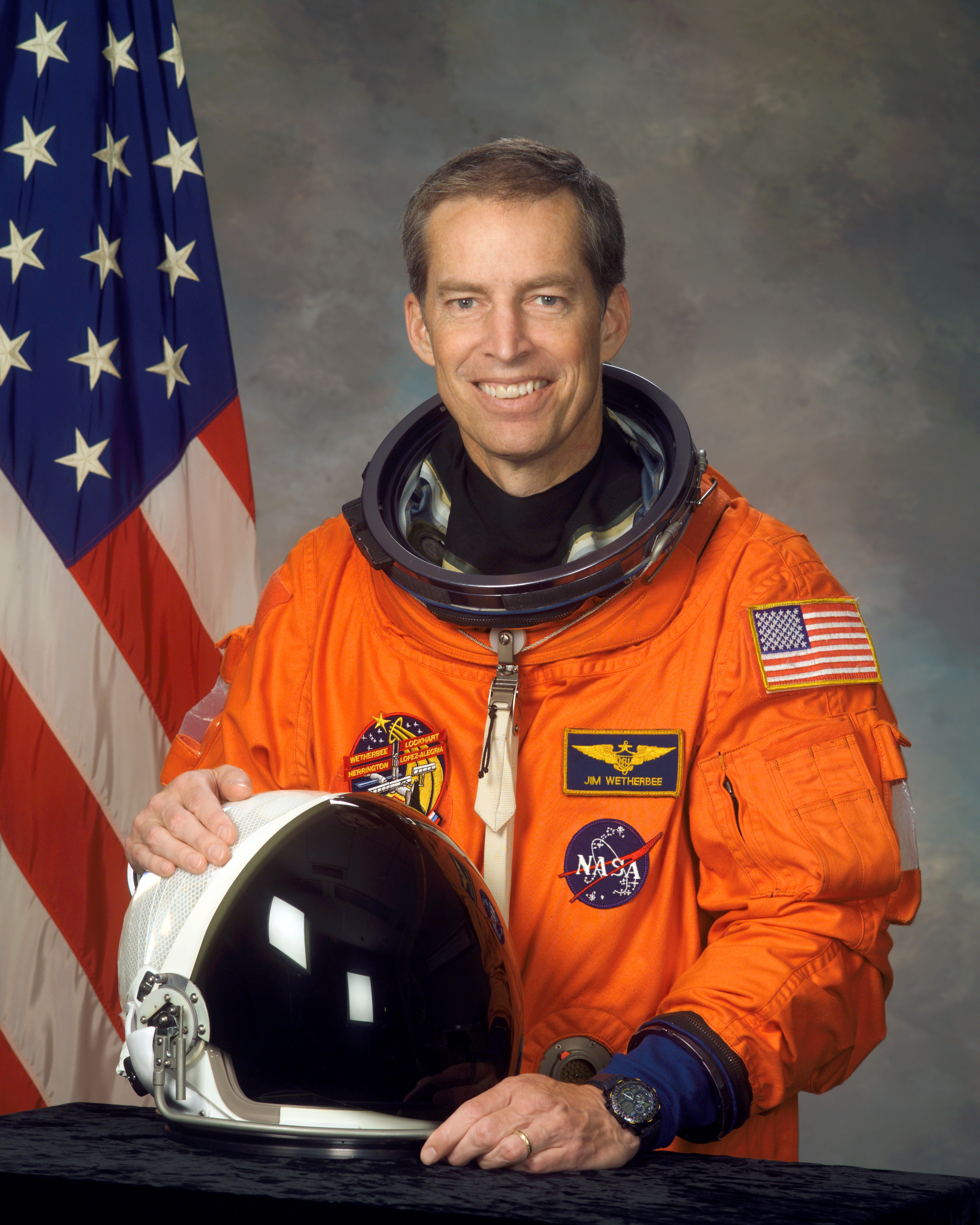 portrait astronaut james d wetherbee